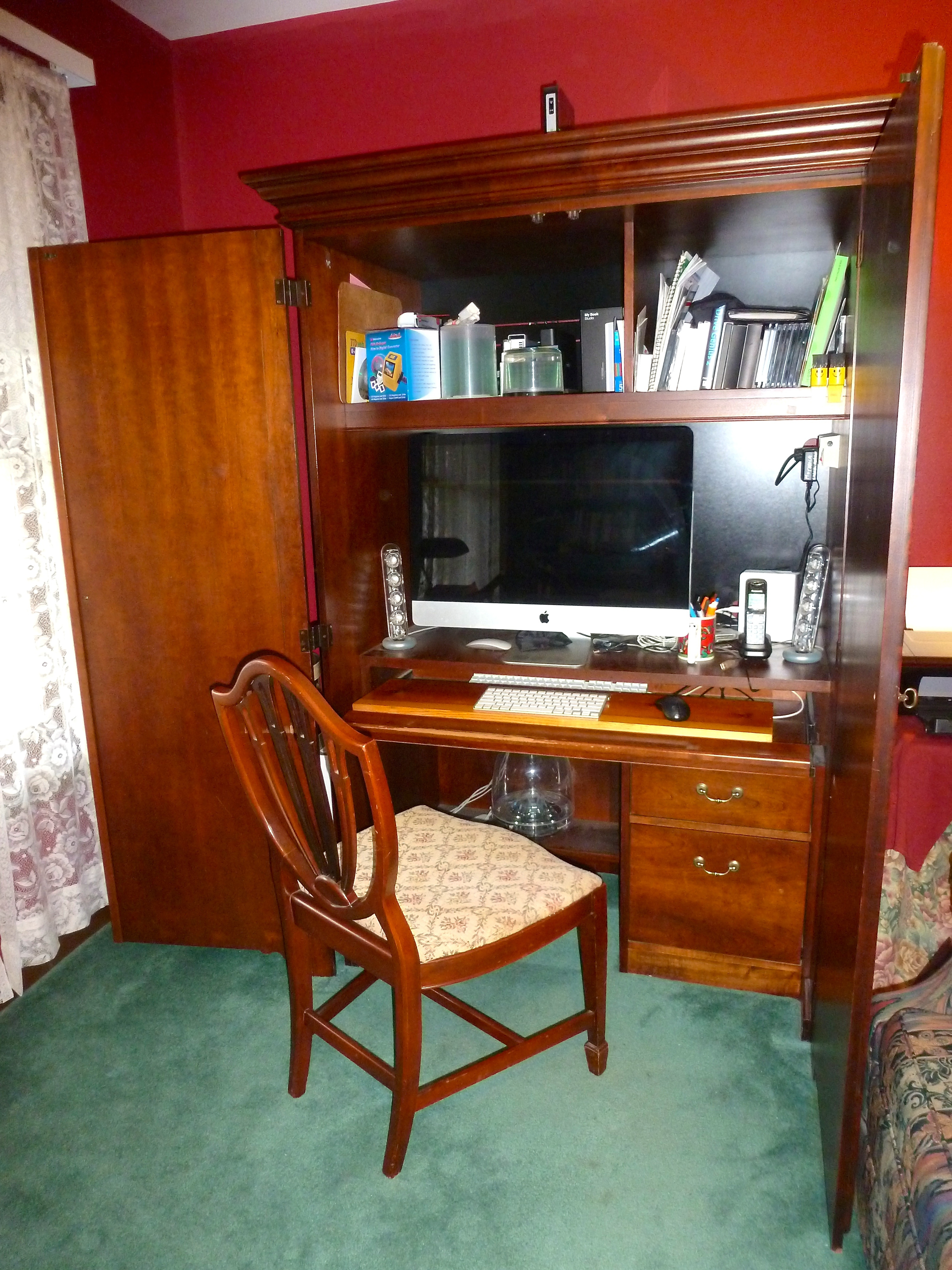 computer armoire desk with shield back chair in front of it. There is an Apple computer inside the armoire